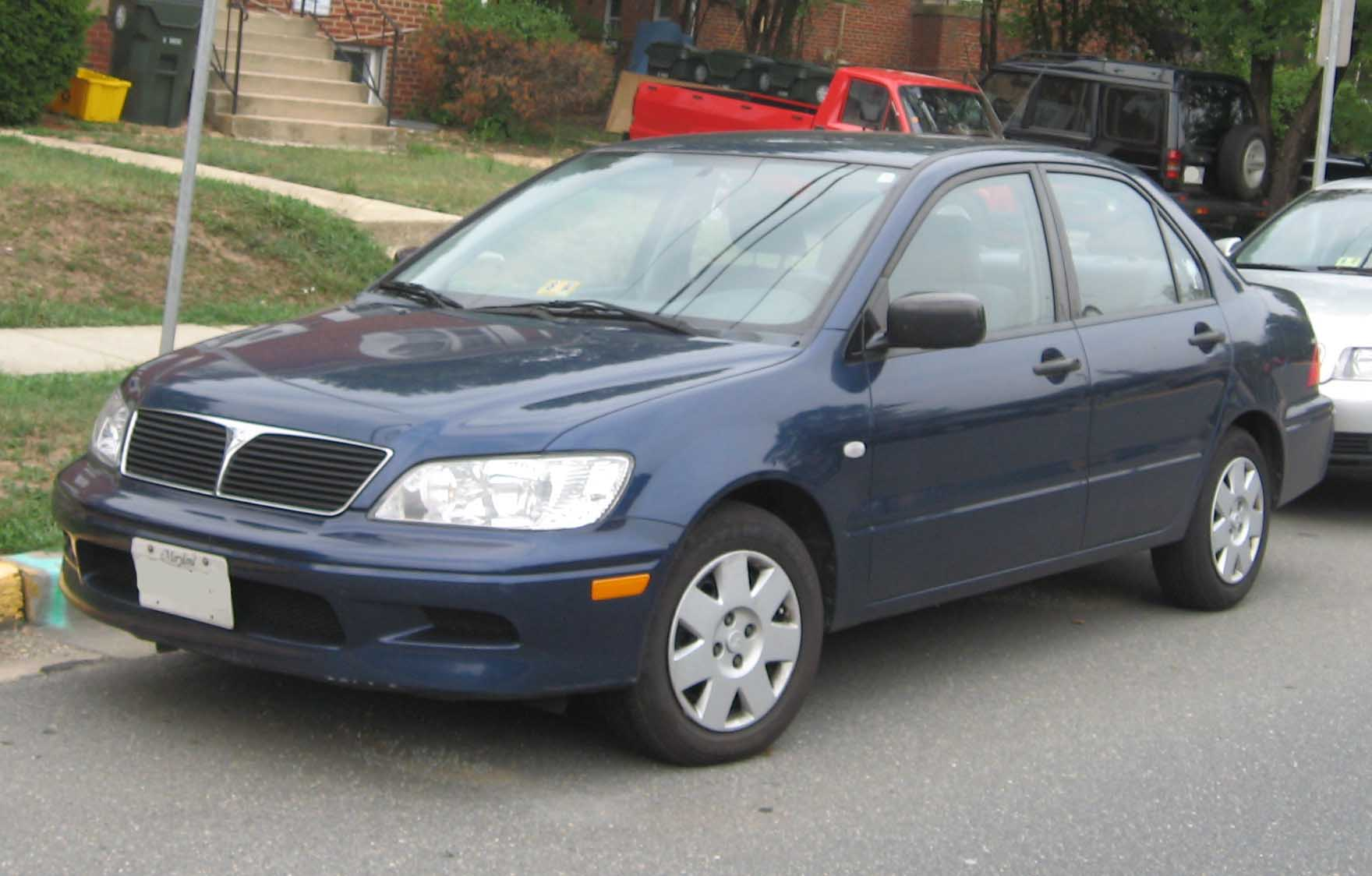 2002-2003 Mitsubishi Lancer photographed in USA.